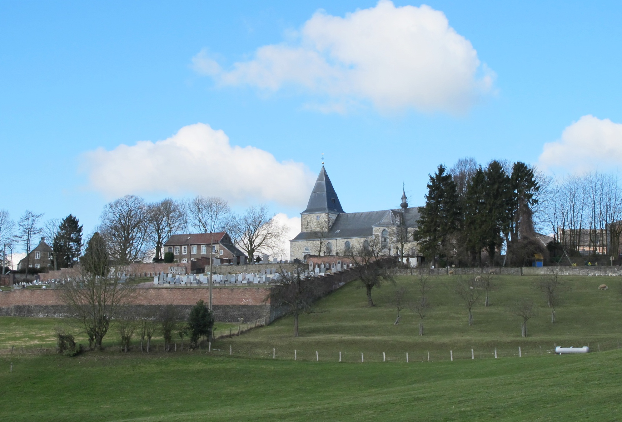 Henri-Chapelle Village